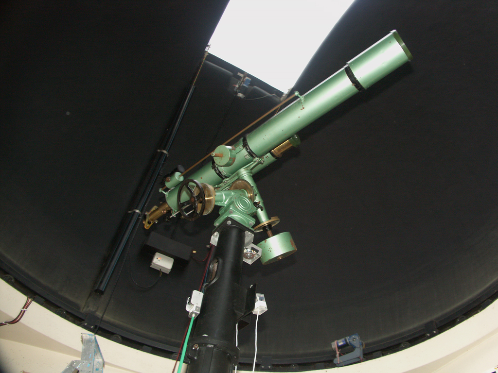 130 mm Zeiss refracting telescope housed by Gifford Observatory